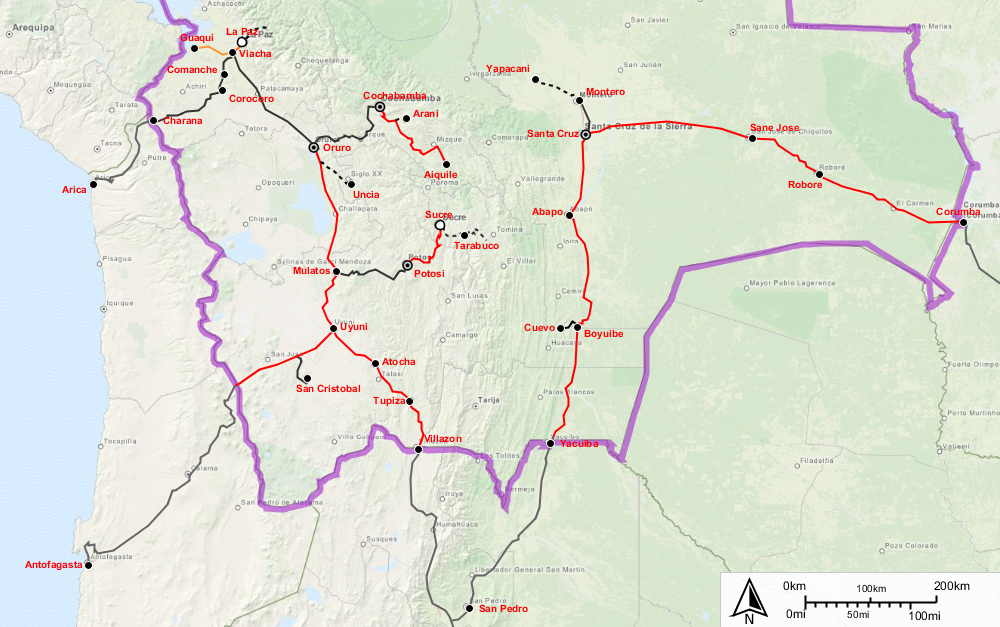 Railways in Bolivia Legend: ━━━ Routes with passanger traffic ━━━ Routes in usable state ············ Unusable or dismantled routes ━━━ Routes outside Bolivia